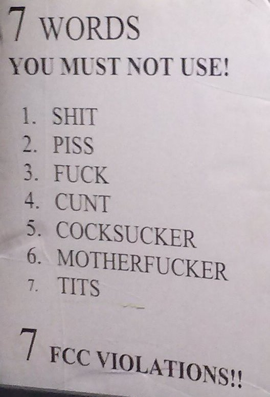 A poster in a WBAI broadcast booth at WHCR which warns radio broadcasters against using the Seven Dirty Words.